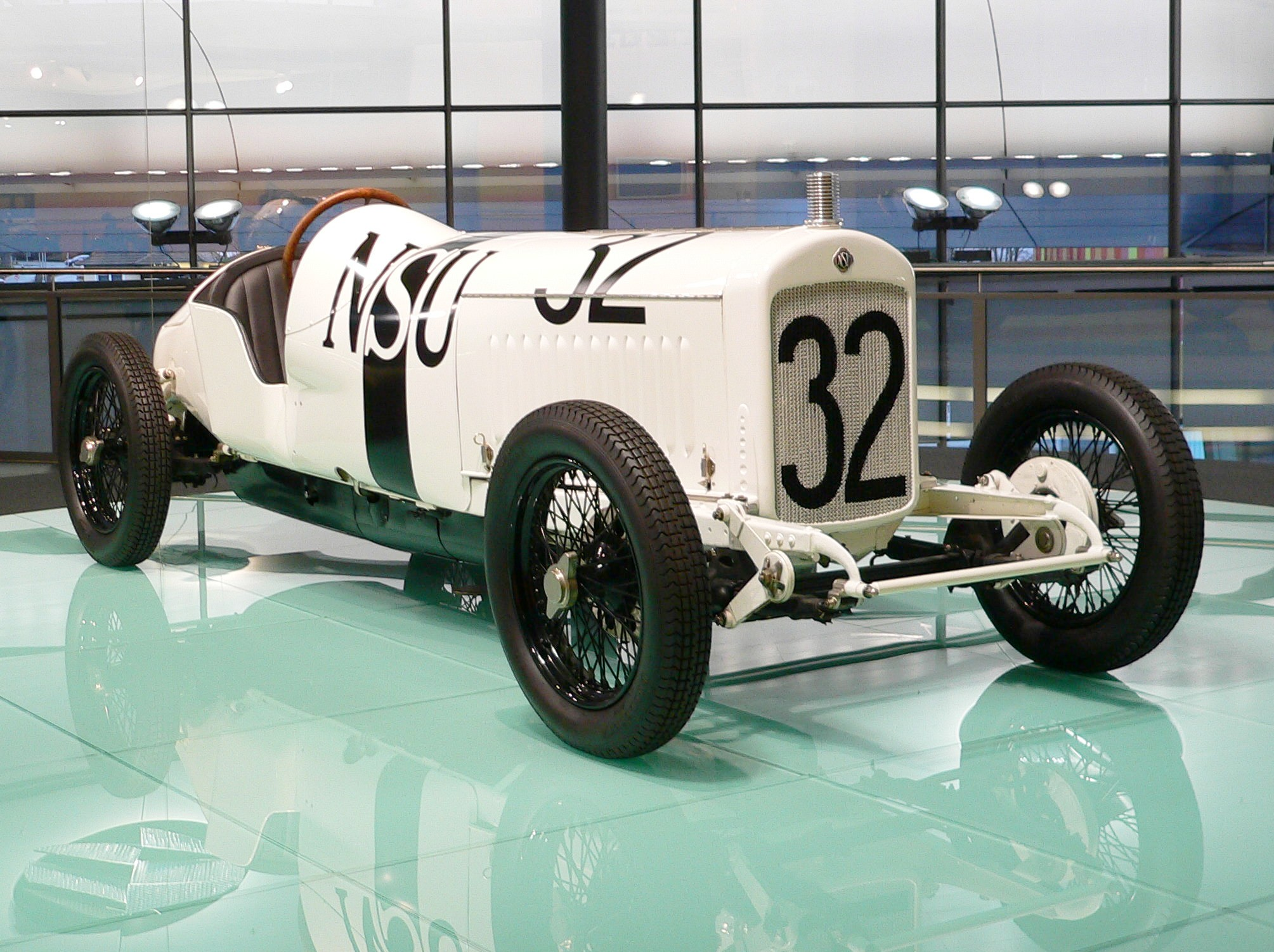 "NSU 6/60 Kompressor Rennwagen" (1926) at the Exhibition of historical vehicles in the Audi-Forum of the Audi AG in the City Neckarsulm/Germany